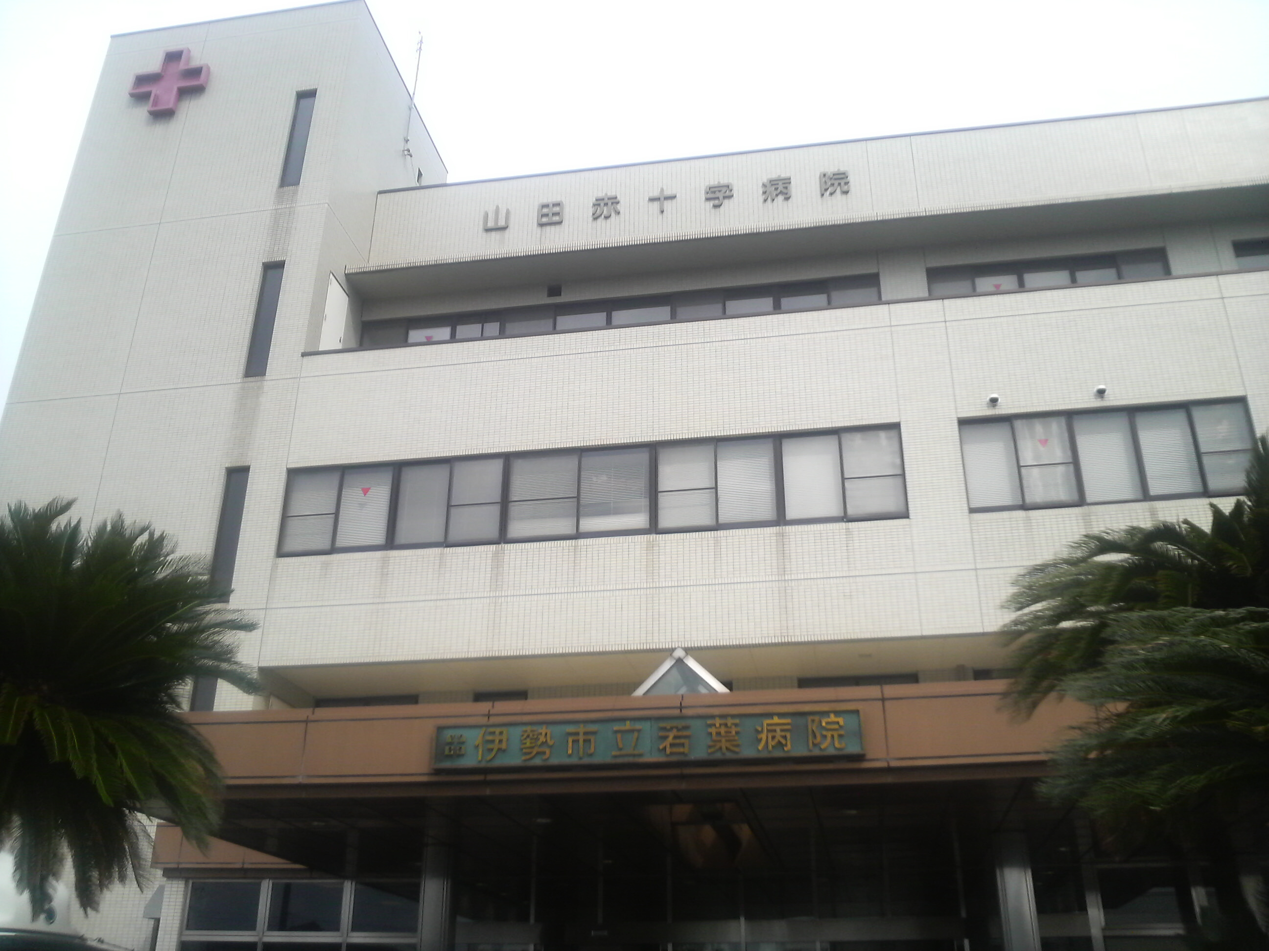 Yamada Red Cross Hospital(Ise City, Mie, Japan) that took a picture on May 17, 2009. The display of the hospital name of the main entrance is decorated because of the motion picture photography.